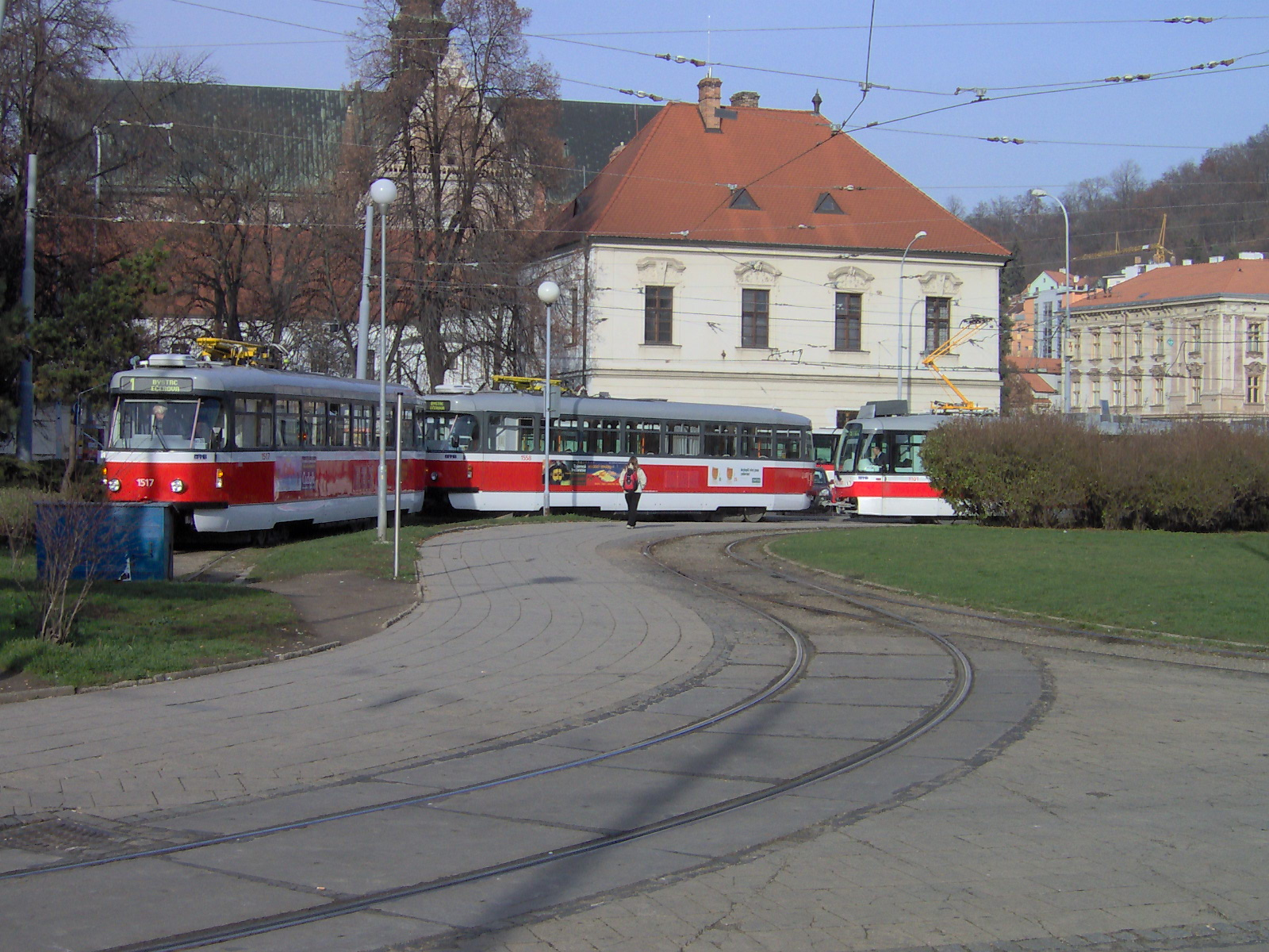 Tram loop in Mendel square Česky: Tramvajová smyčka na Mendlově náměstí s odstavenými tramvajemi